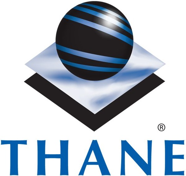 Logo of Thane